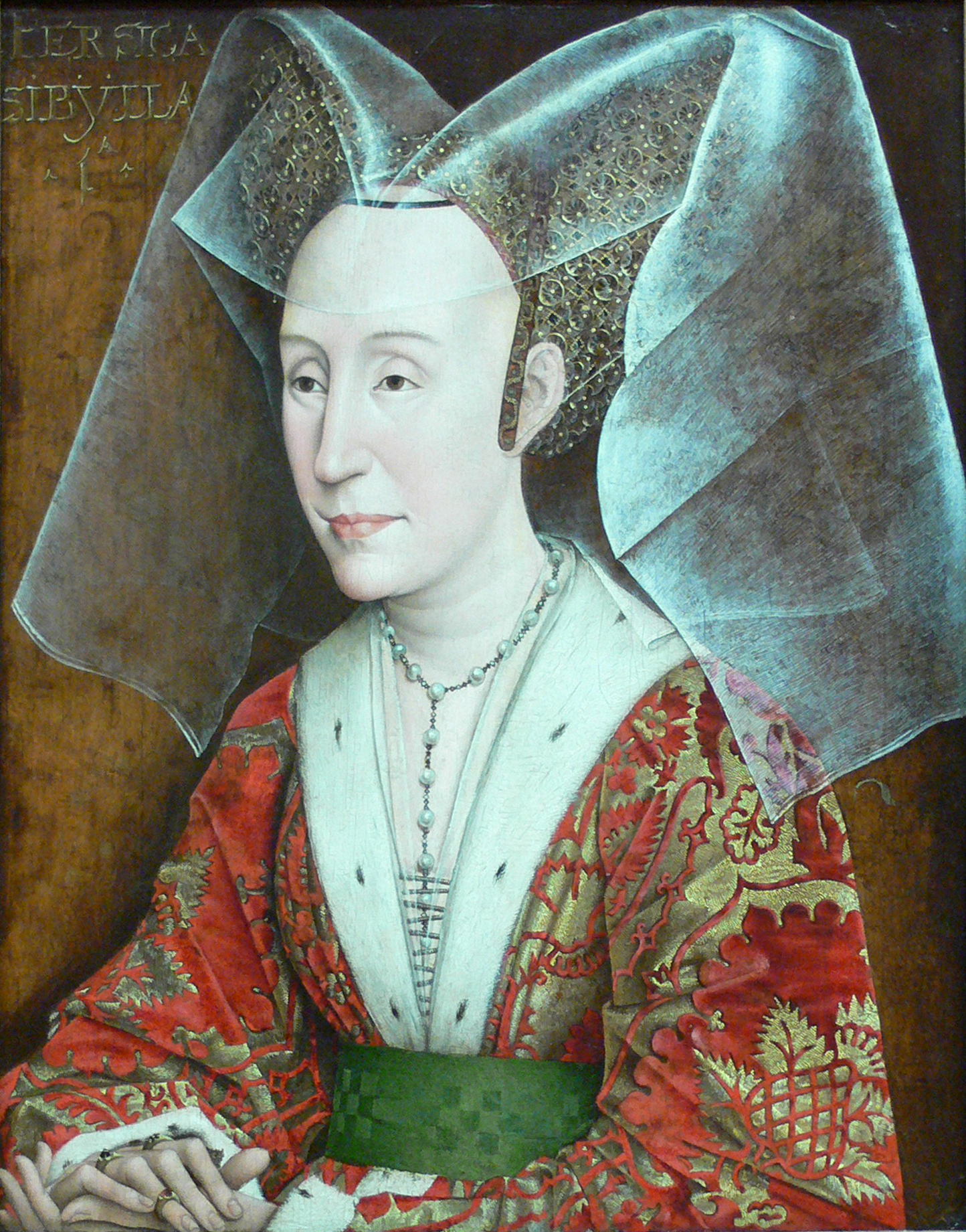 Copy after an altarpiece (or from the same sitting as the altarpiece) of c. 1445-50: "Some major altarpieces for noble clients by Rogier van der Weyden are now lost. One, executed around 1445-1450, was a picture of the Madonna being venerated by the Duke and Duchess of Burgundy and their son. The Duchess, Isabella of Portugal, gave it to a monastery in Batalha in Portugal, where her father was buried...The original by Rogier van der Weyden of which this [painting on panel] is a copy must have been painted before 1451, the date of an anonymous altarpiece panel now in new York; the depiction of the female donor in the altarpiece was strongly influenced by the portrait of Isabella of Portugal, the characteristic necklace in particular matching in both arts. The description of Isabella as the "Persic Sibyl", top left, is a later addition."